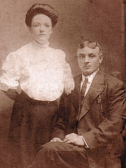 Catherine and John Bourke